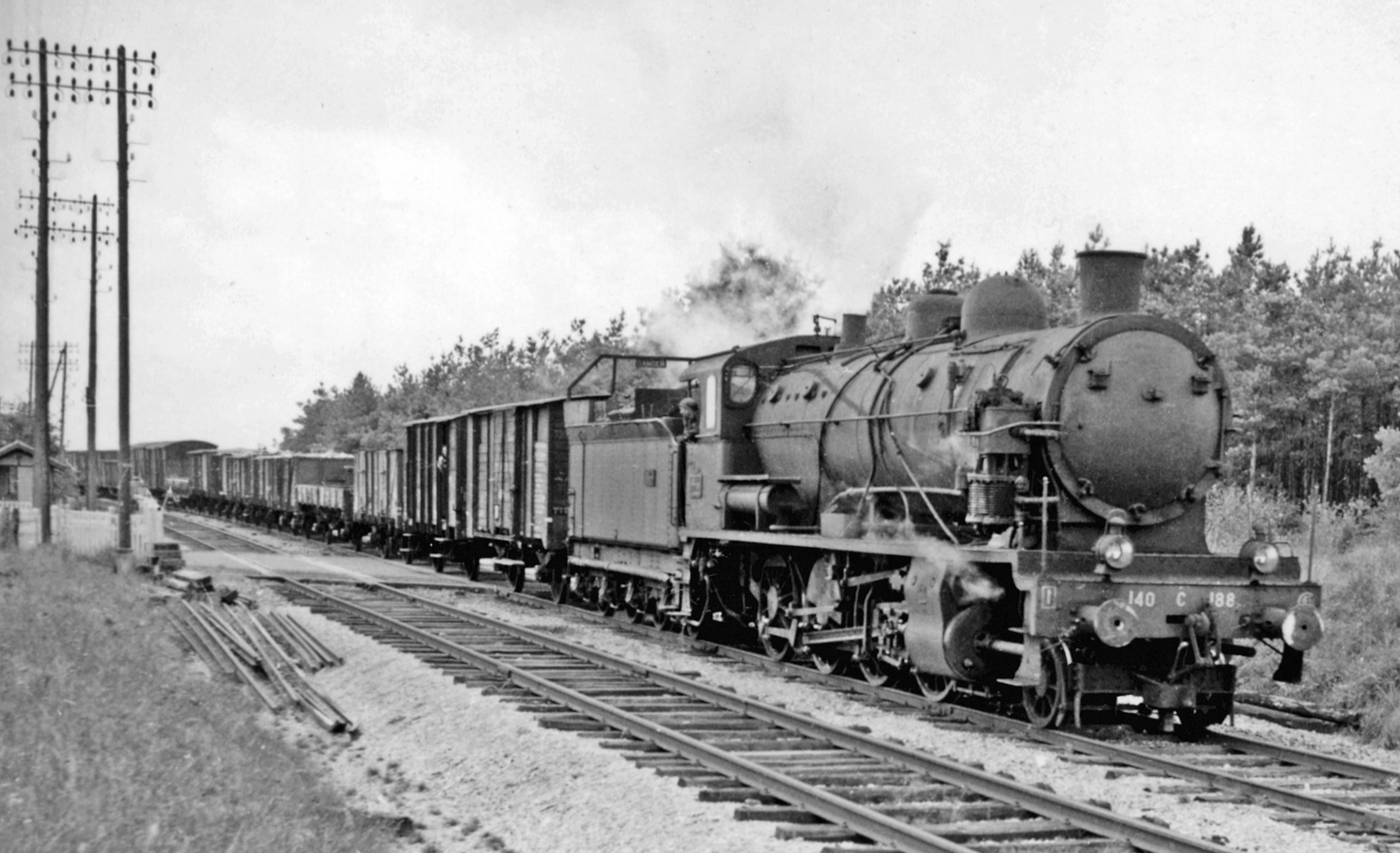 Near Sommesous (Marne) a SNCF class 140-C 2-8-0 heads a freight on the Troyes - Chalons-sur-Marne line, 1958.